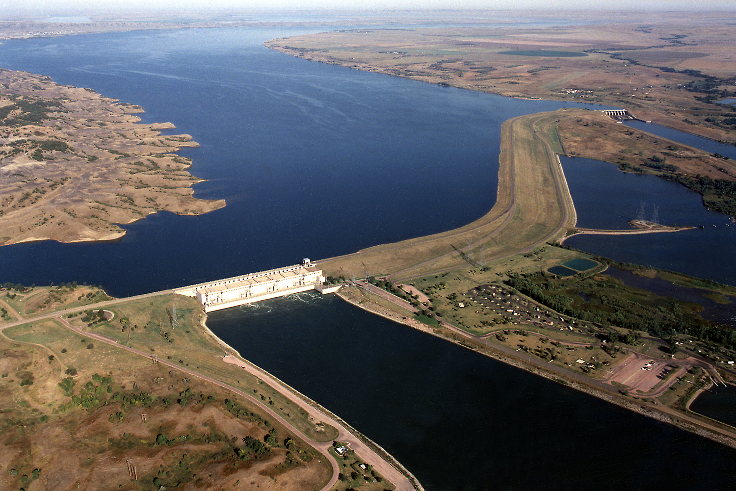 Big Bend Dam on the Missouri River, South Dakota. View is upriver to the west-northwest. The dam is located near Fort Thompson, South Dakota, USA.